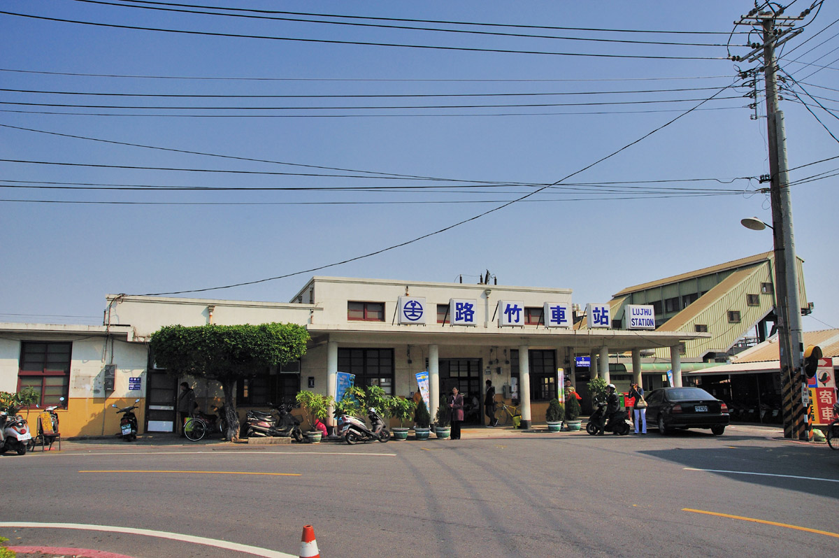 LuJhu Station is a local train station of Taiwan's Western main rail line. It locates within the boundary of LuJhu Township, KaoHsiung County. LuJhu station is the main station of the township.